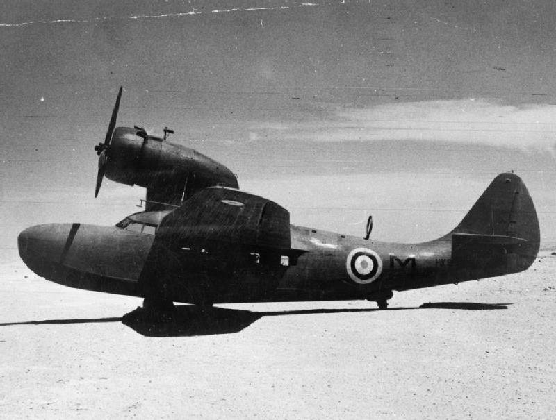 American Aircraft in Royal Air Force Service, 1939-1945- Fairchild 91. Fairchild 91, HK832 'M' of the Sea Rescue Flight, on an airfield in Egypt. This single-engined amphibian, formerly NC16690 on the US civil register, was purchased second-hand by the British Air Ambulance Corps, a New York-based charity, and delivered to the Middle East where it served with the SRF until sunk in a take-off accident near Benghazi on 17 May 1943.